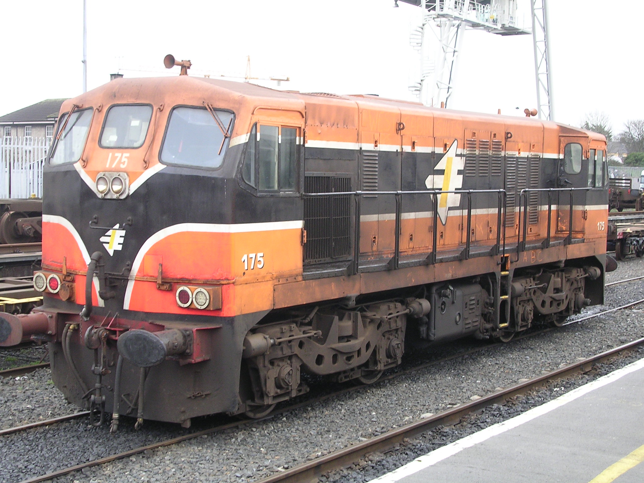 B175 Bo-Bo, 141 Class, EMD model JL8, Taken Jan 06